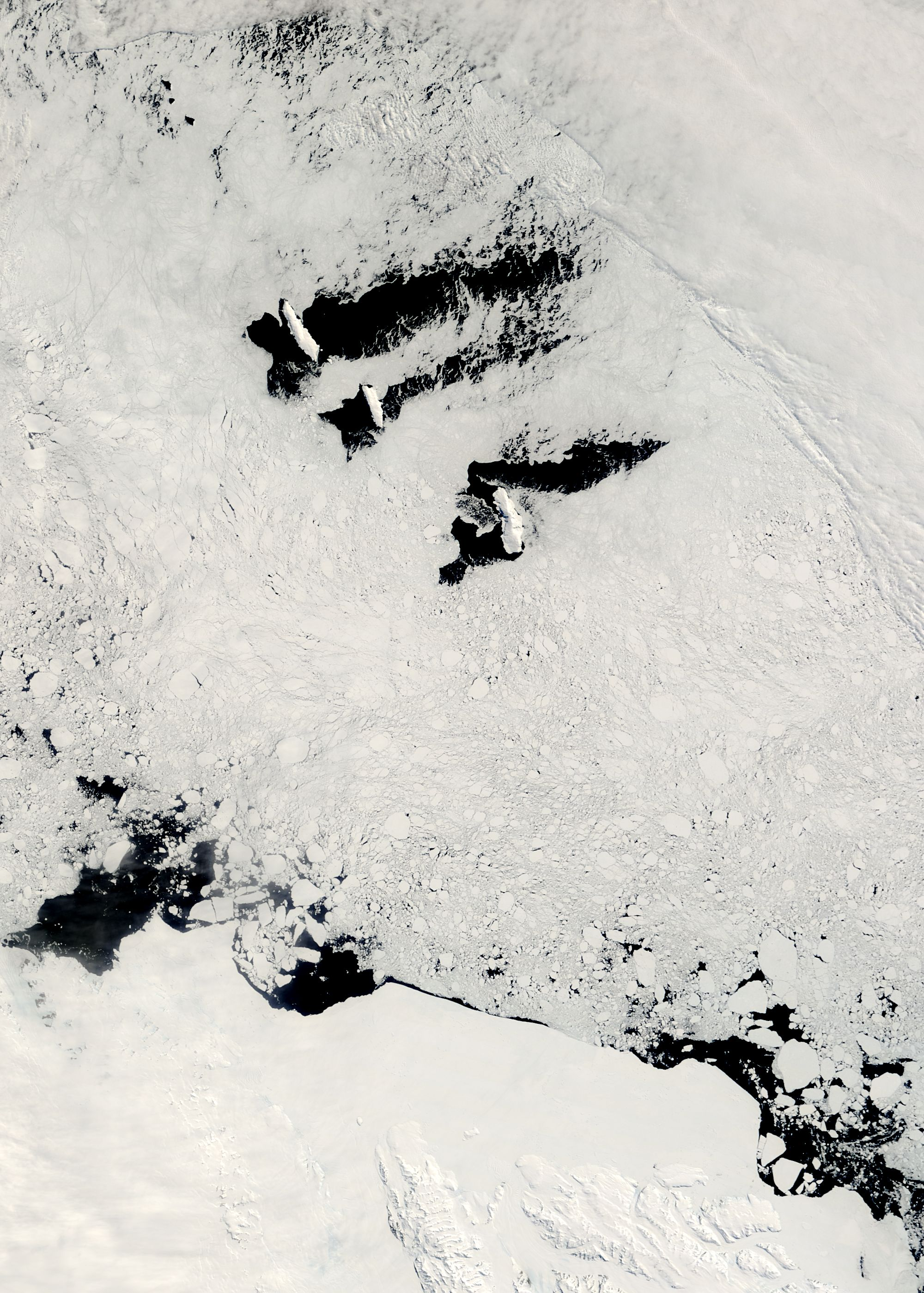 Balleny Islands, near the Antarctic coast, from the Moderate Resolution Imaging Spectroradiometer (MODIS) on NASA’s Terra satellite.